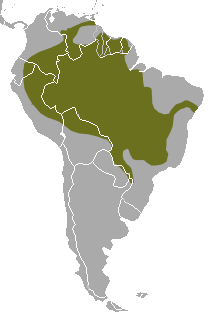 Giant Otter (Pteronura brasiliensis) range